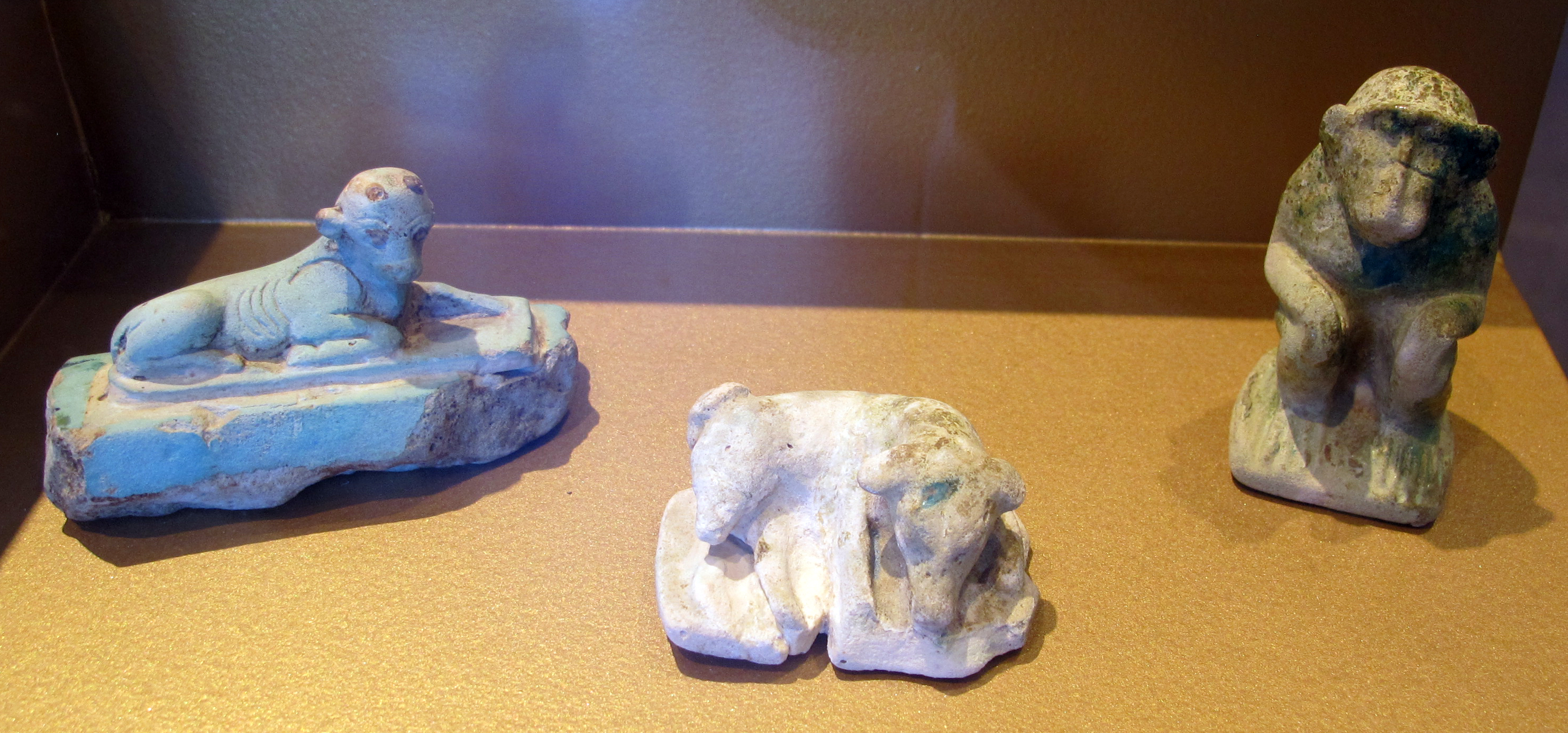 Egyptian antiquities in the Brooklyn Museum